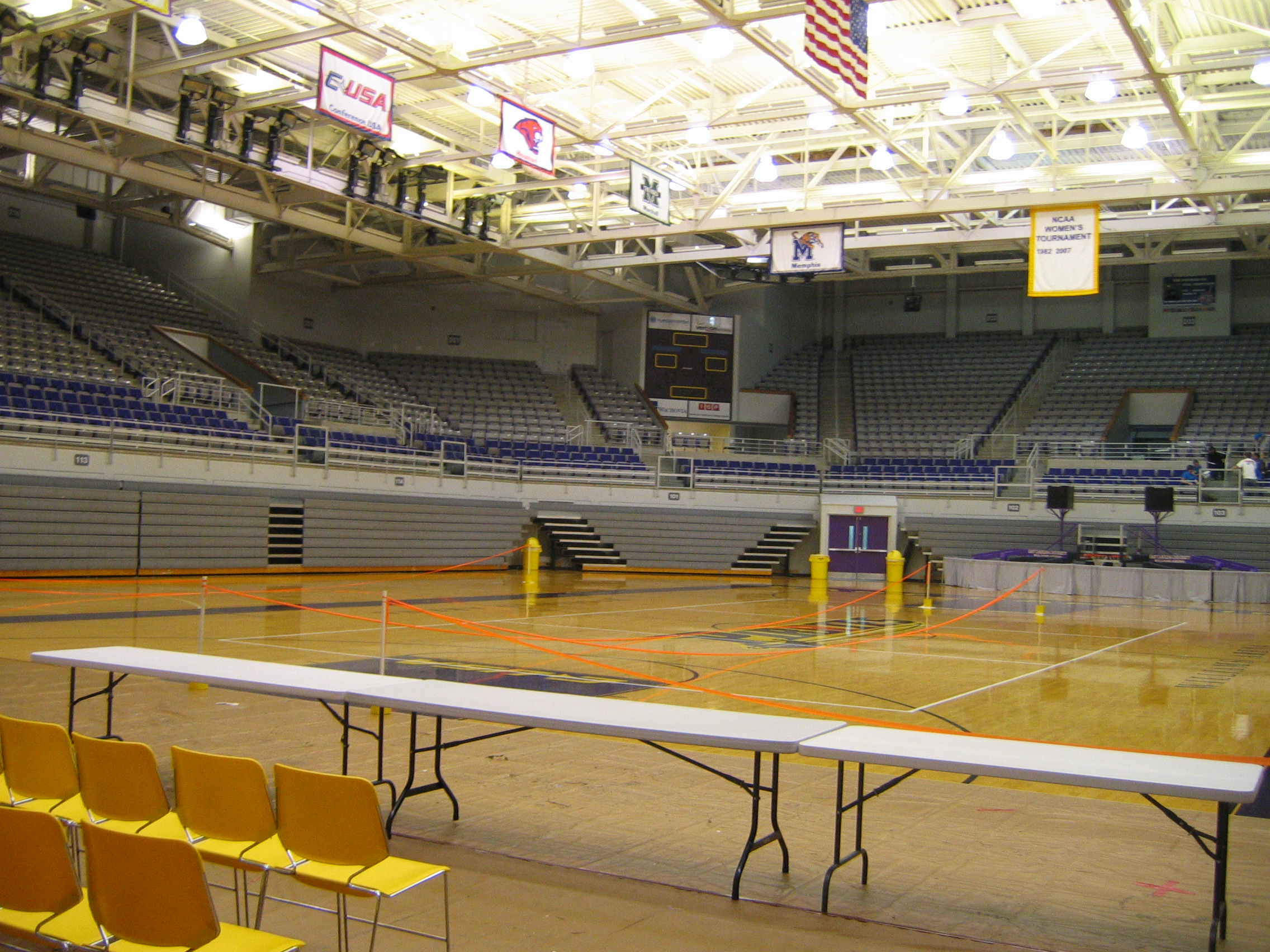 Football & Basketball Facilities East Carolina Arena